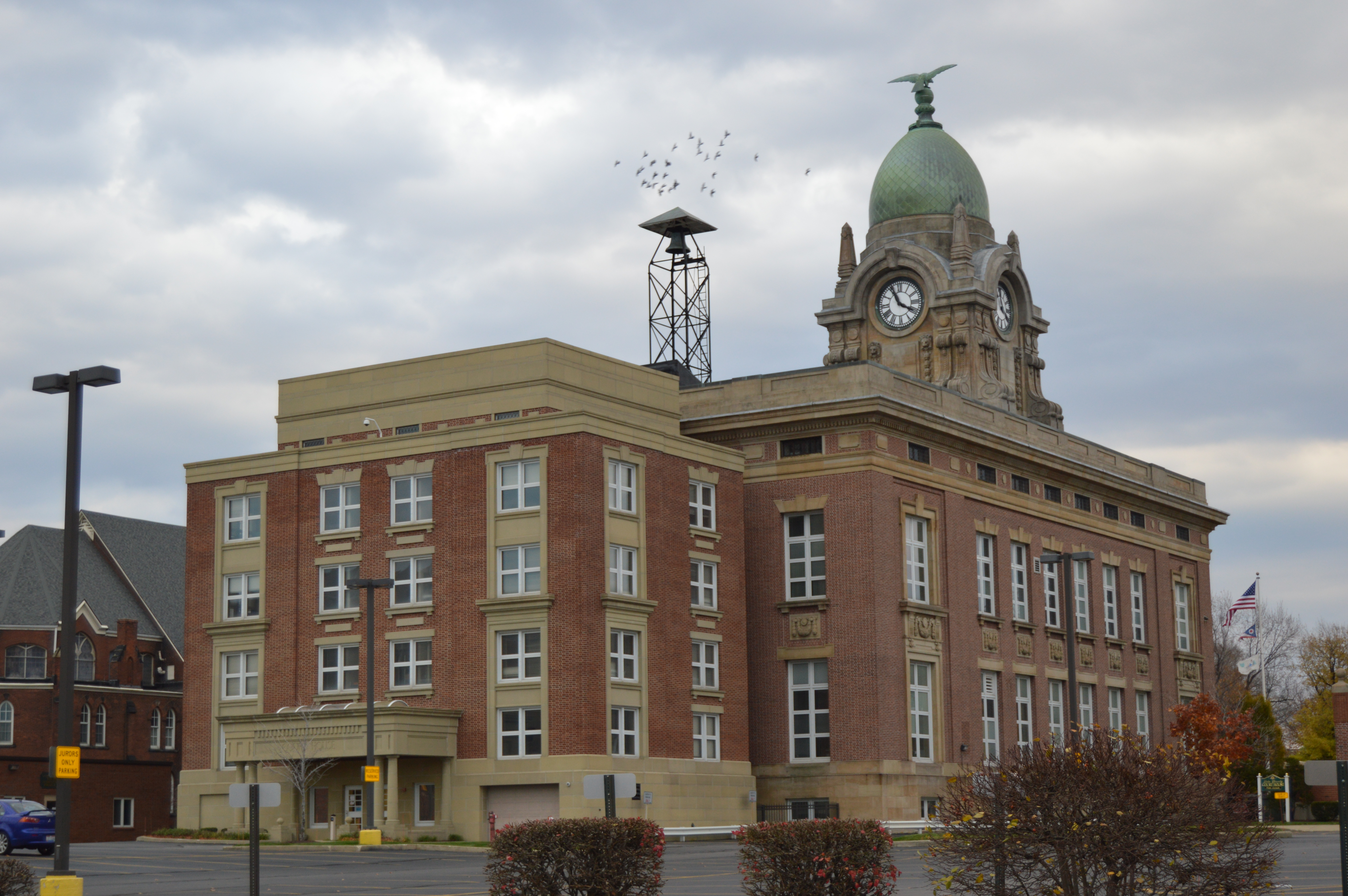 Rear and western side of the Lake County Courthouse, located at 25 N. Park Place in downtown Painesville, Ohio, United States.